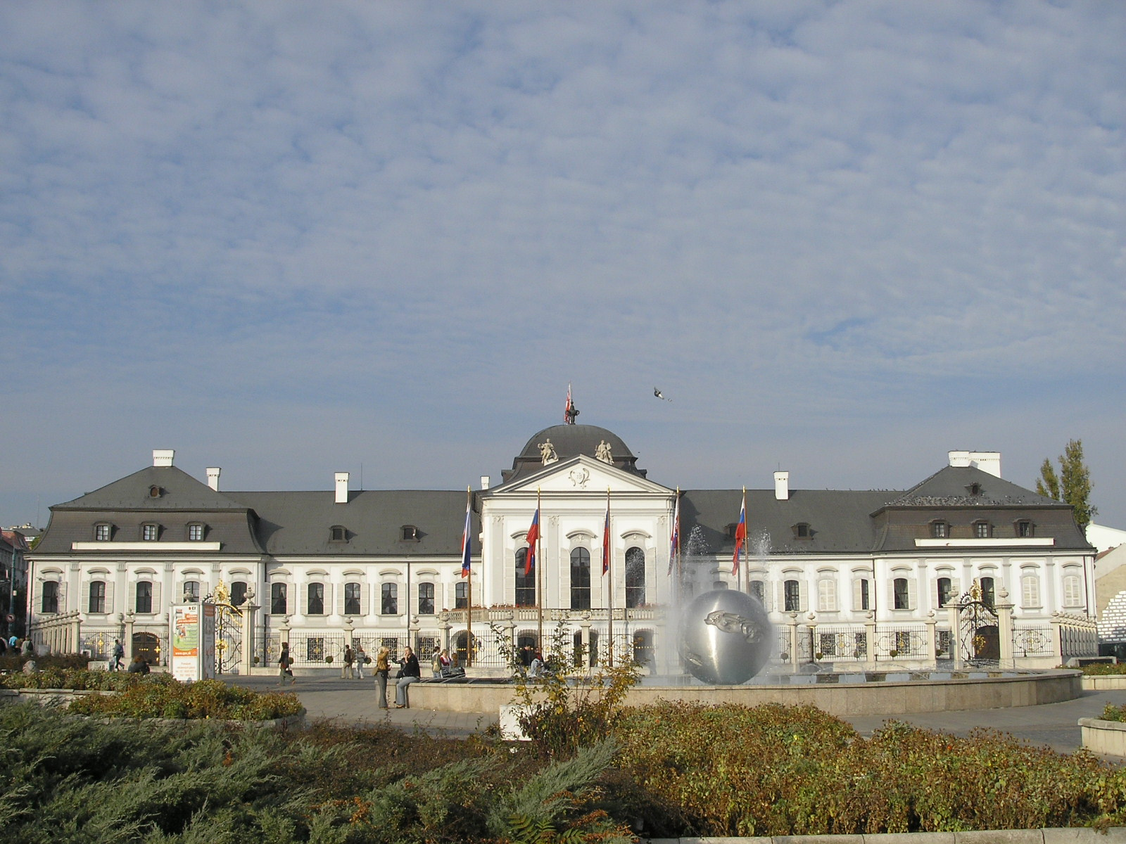 Grassalkovich Palace (Grasalkovicov palác) in Bratislava. Seat of the President of Slovakia.